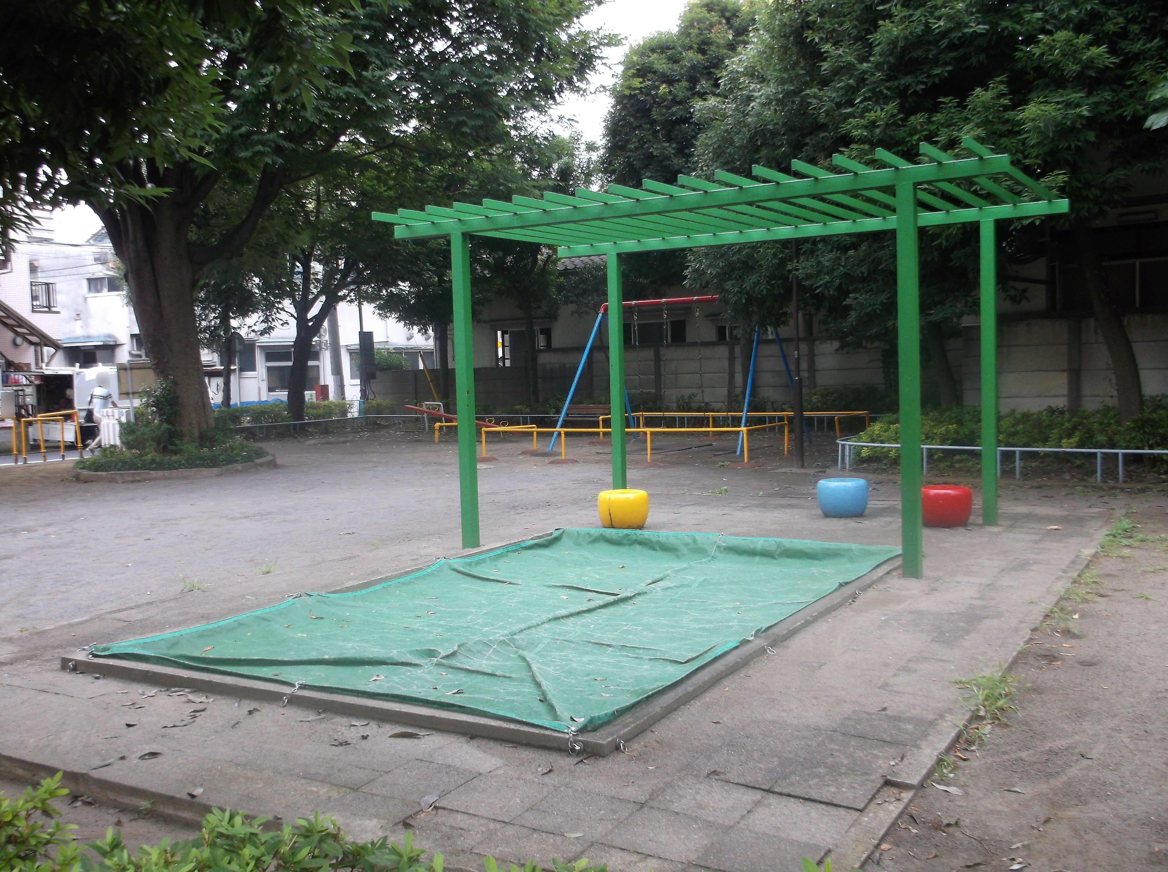 A photo of an overview of Shimizuhigashi Children's Playground.Megurohoncho,Meguro-ku,Tokyo,Japan.